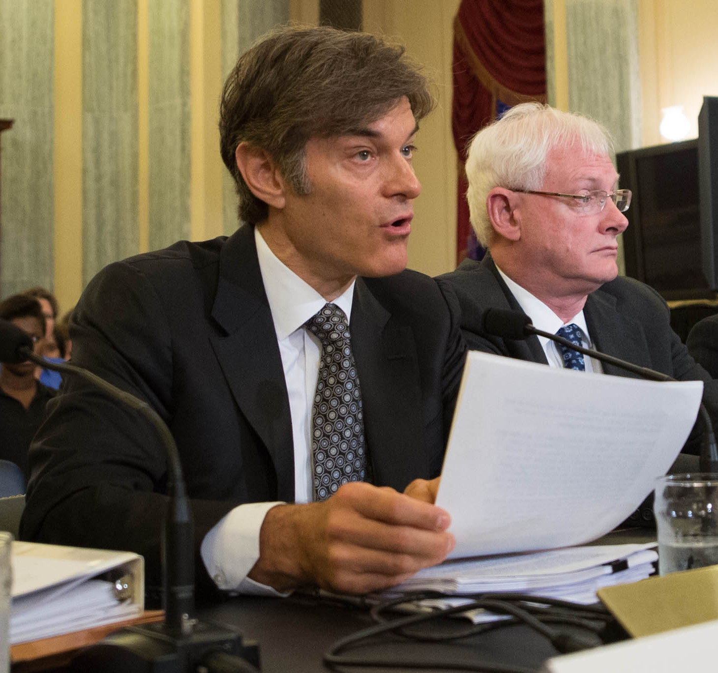 McCaskill Takes Aim at Diet Scams that are ‘a crisis in consumer protection’ -- U.S. Senator Claire McCaskill took aim at weight-loss diet scams that she said represent “a crisis in consumer protection”—using a hearing in the Consumer Protection panel that she leads to pose tough questions to popular TV host Dr. Mehmet Oz on his frequent claims about “miracle” products, explore options for regulators and industry to crack down on deceptive practices, and urge media outlets to strengthen screening of false advertising.